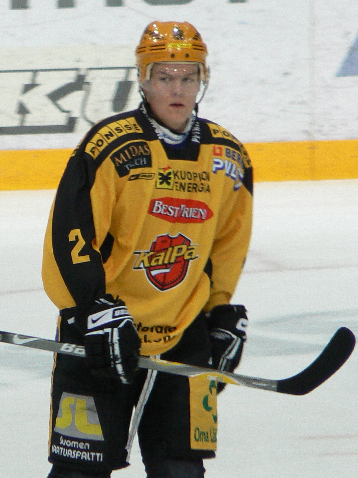 Finnish ice hockey defenseman Timo Seppänen playing for KalPa Kuopio in September, 2008.